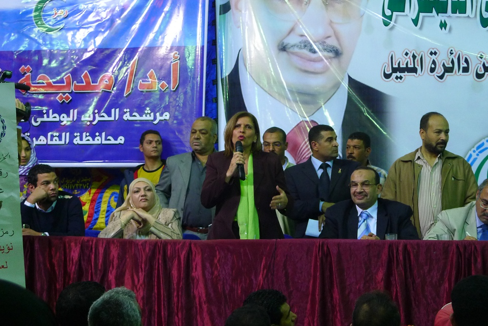 Mediha Khattab, a woman running with the ruling National Democratic Party for a female quota seat, delivers a speech at a rally in the Old Cairo neighborhood of Egypt's capital three days before the country's election for its lower house of parliament. Khattab, who has spent a long career in the upper echelons of medical academia and the health care industry, was running for parliament for the first time. [Evan Hill]